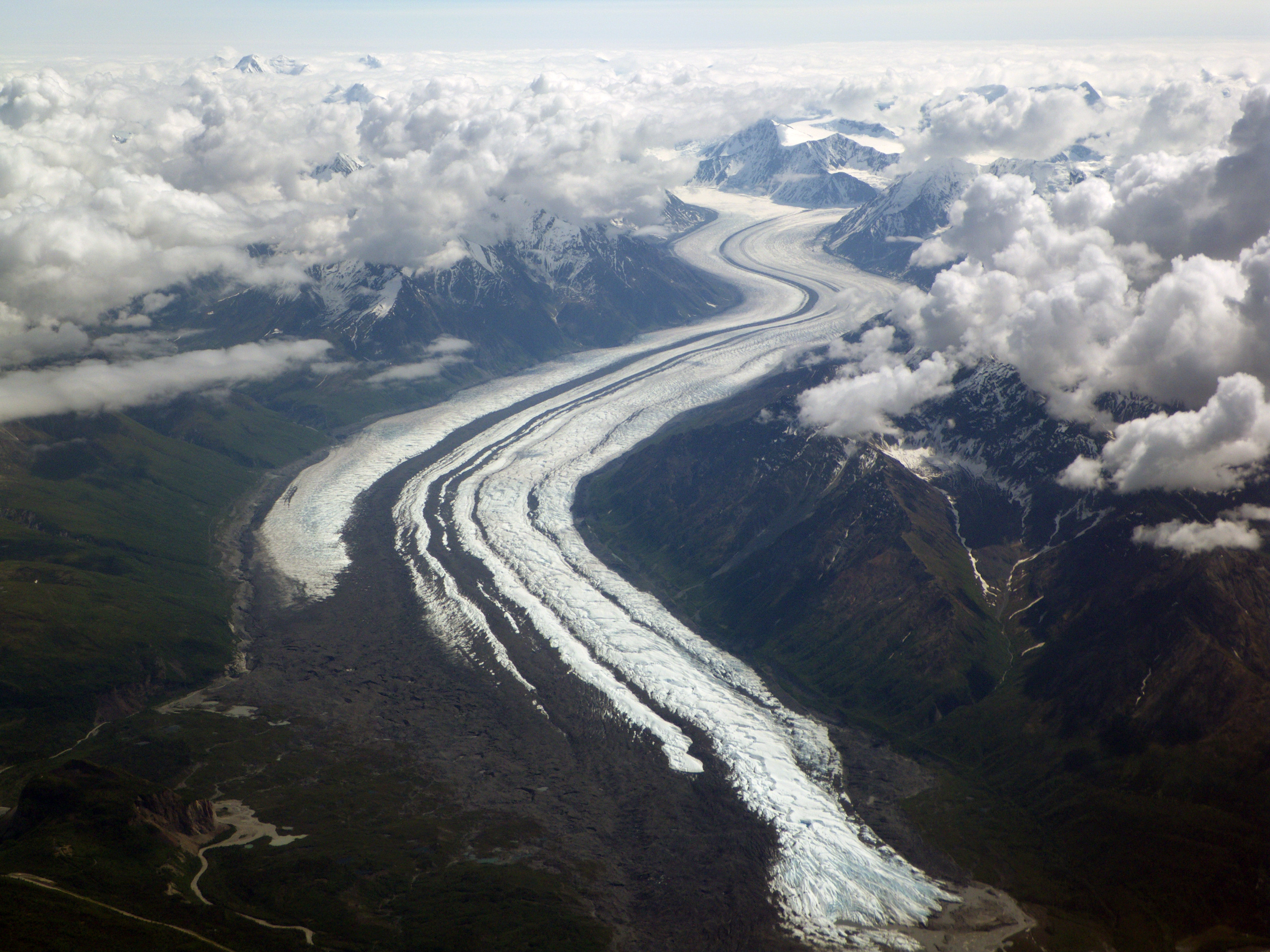 Matanuska Glacier as seen from 20 thousand feet.